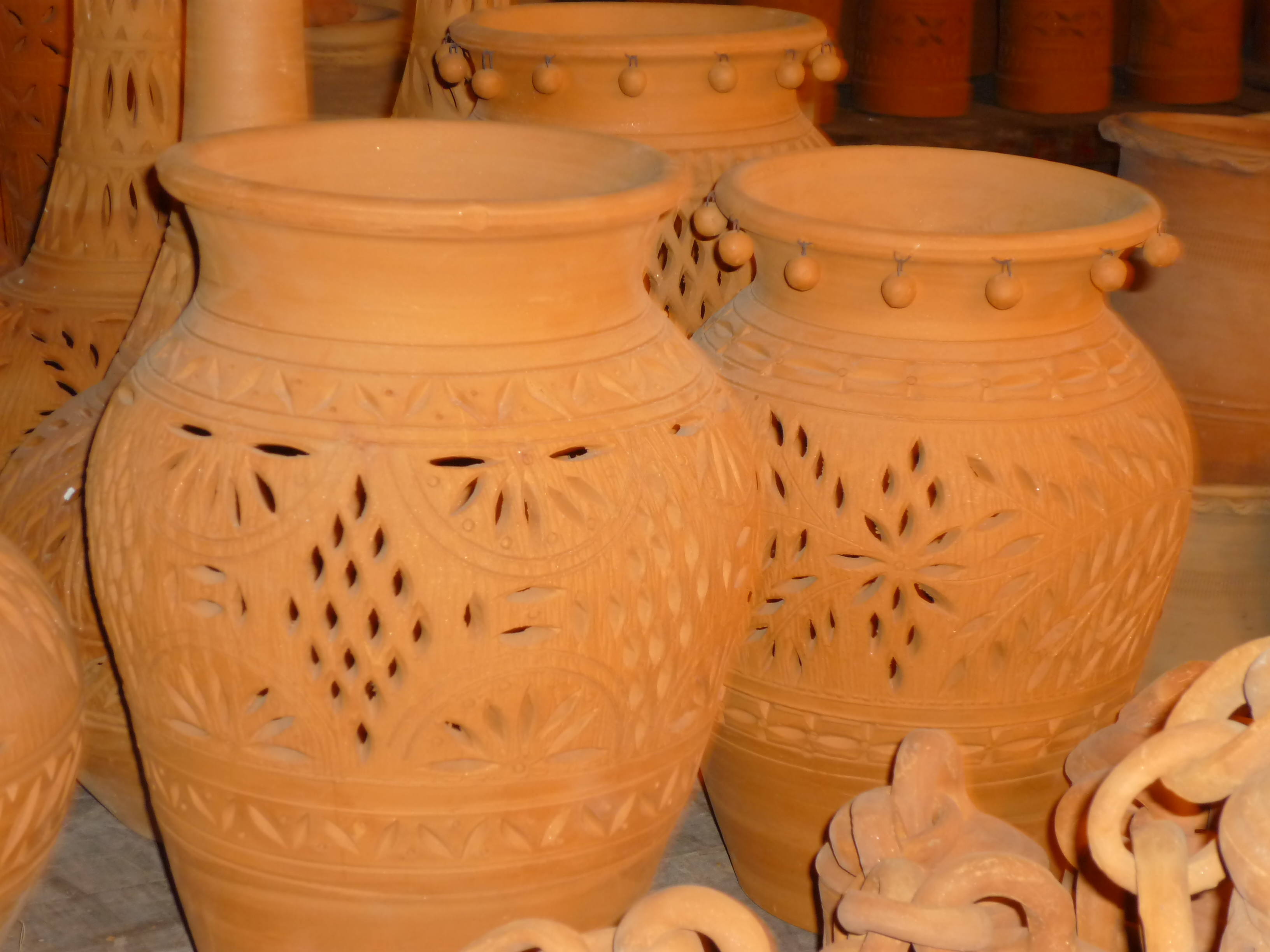 pots made of clay.